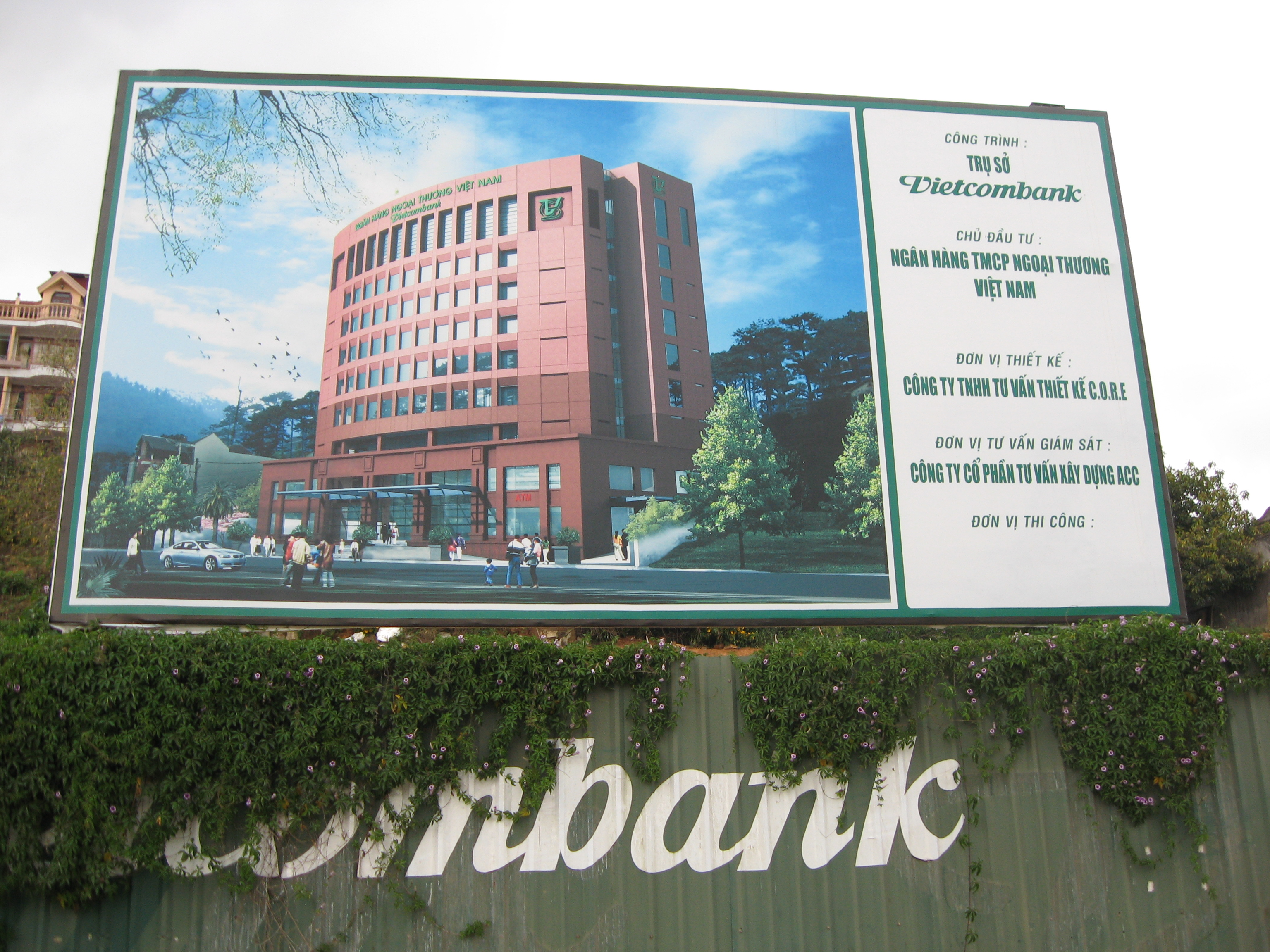 Vietcombank project Nguyen Van Cu, Da Lat